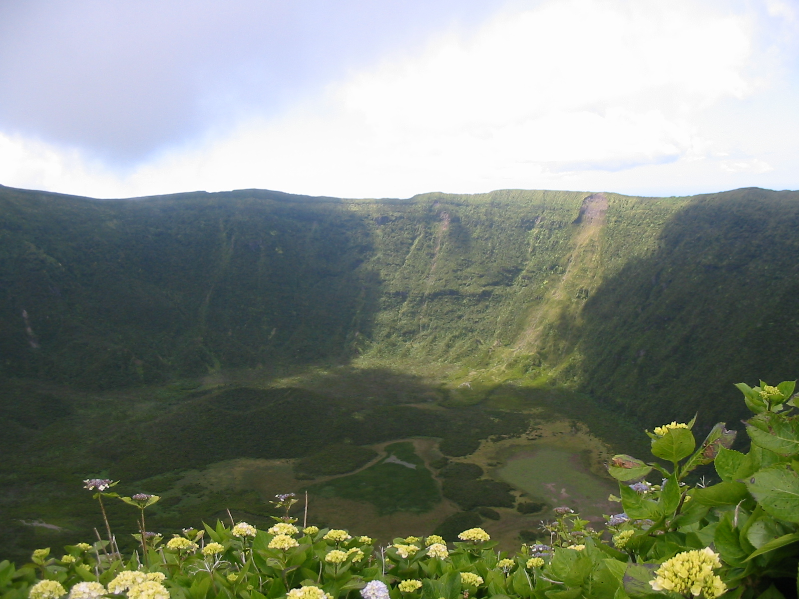 Caldeira of the Faial Island (Azores), viewed from the east.